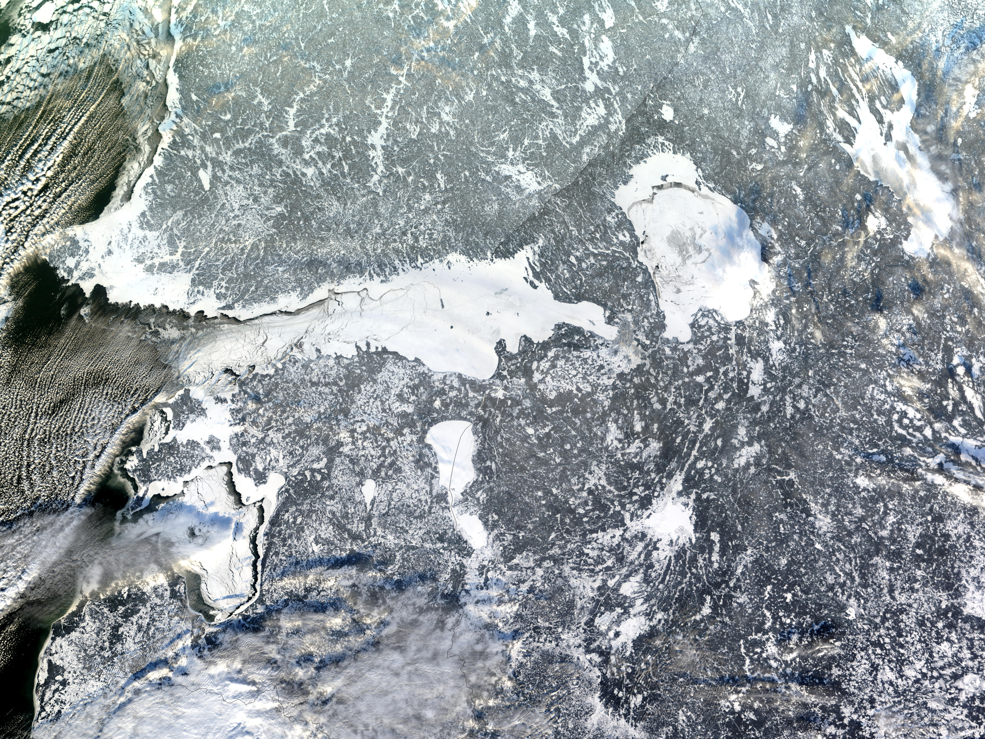 Gulf of Finland. The bitter cold snap bearing down on northwest Russia has also locked the Gulf of Finland up in ice. This true-color Moderate Resolution Imaging Spectroradiometer (MODIS) image from January 10, 2003, shows the frozen Gulf, which is bound at north by Finland, at south by Estonia, and on the east by Russia. At the far eastern end of the Gulf lies the city of St. Petersburg, an important port for regional trade. Now completely frozen, the port is holding some 26 ships locked up in ice. The faint gray lines running across the gulf shows the attempts by ice breakers to keep shipping lanes open. There is concern that many ships are not prepared for such dangerous ice conditions, and there is particular concern that oil tankers may be damaged and begin to leak.